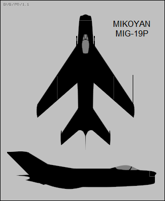 2-view silhouettes of the Mikoyan-Gurevich MiG-19P